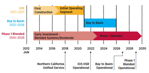 construction schedule for CA HSR